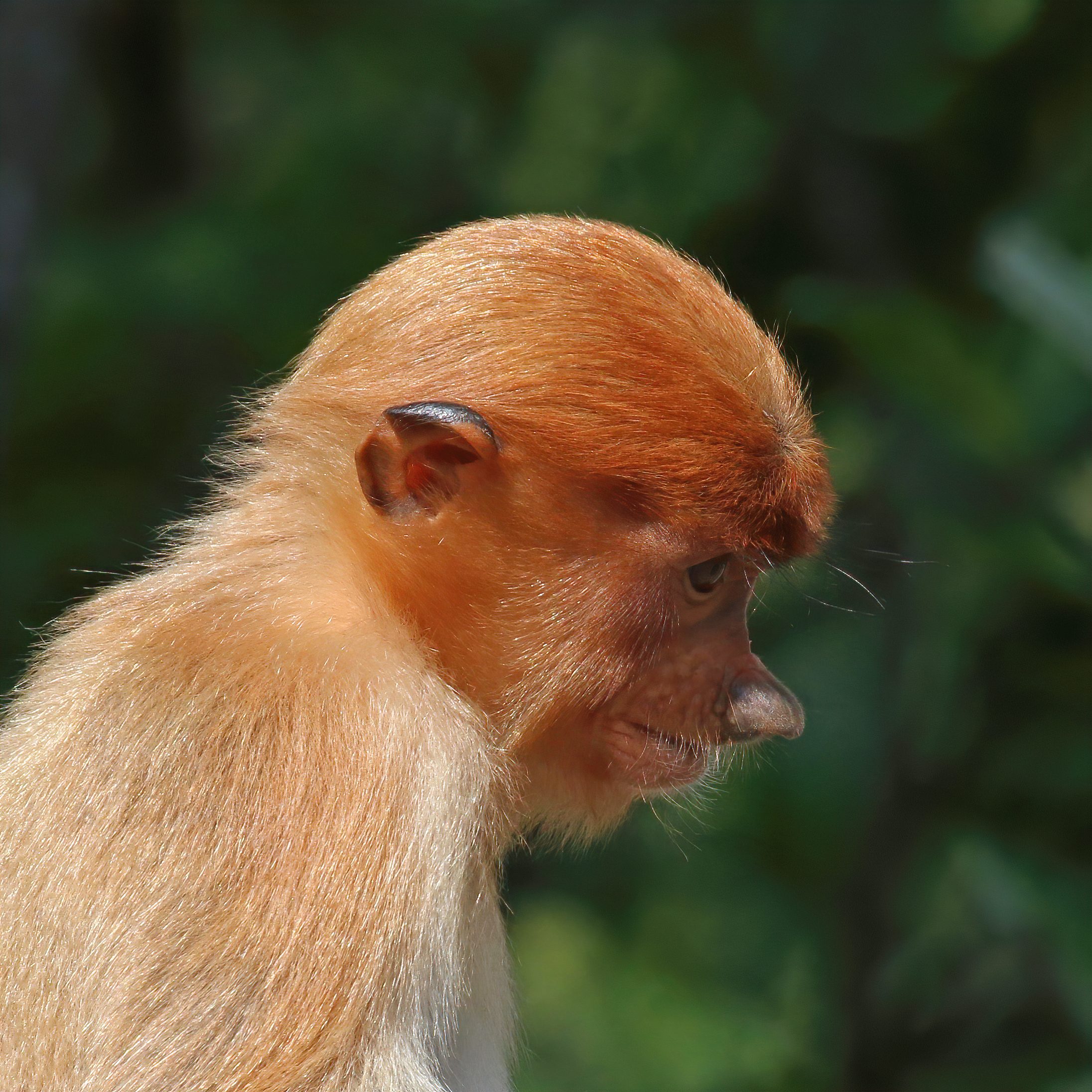 Proboscis monkey (Nasalis larvatus) juvenile, Labuk Bay, Sabah, Borneo, Malaysia